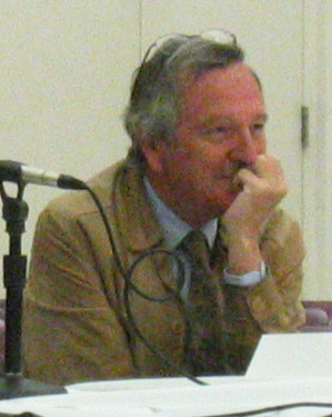 Rafael Moneo in November 2006